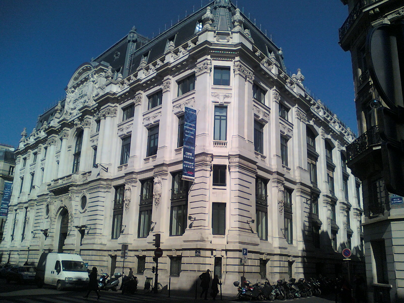 LCL (Credit Lyonnais) headquarters in Paris. Rue du 4 septembre